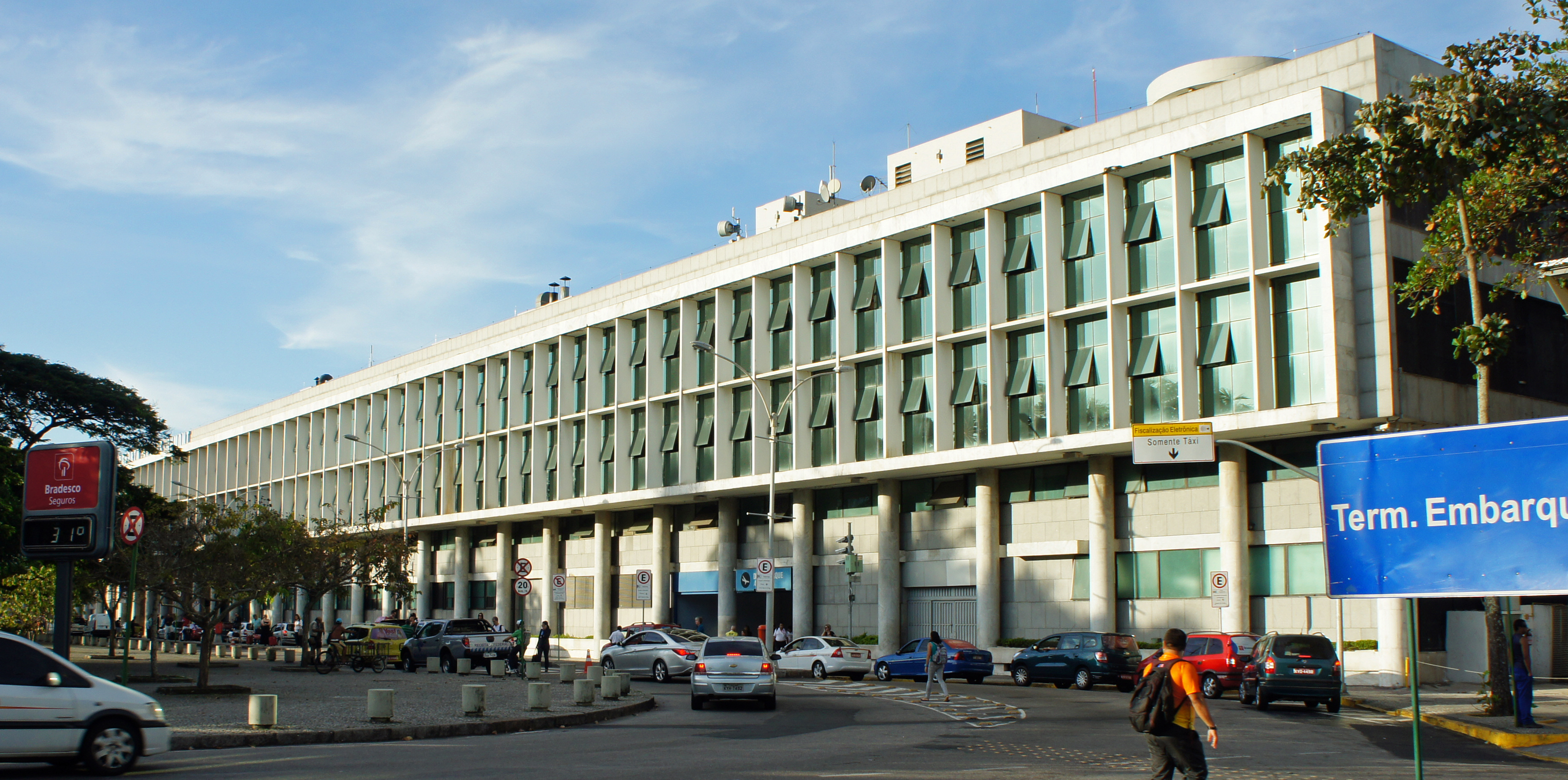 Old terminal building (now only arrivals), Santos Dumont Airport, Rio de Janeiro